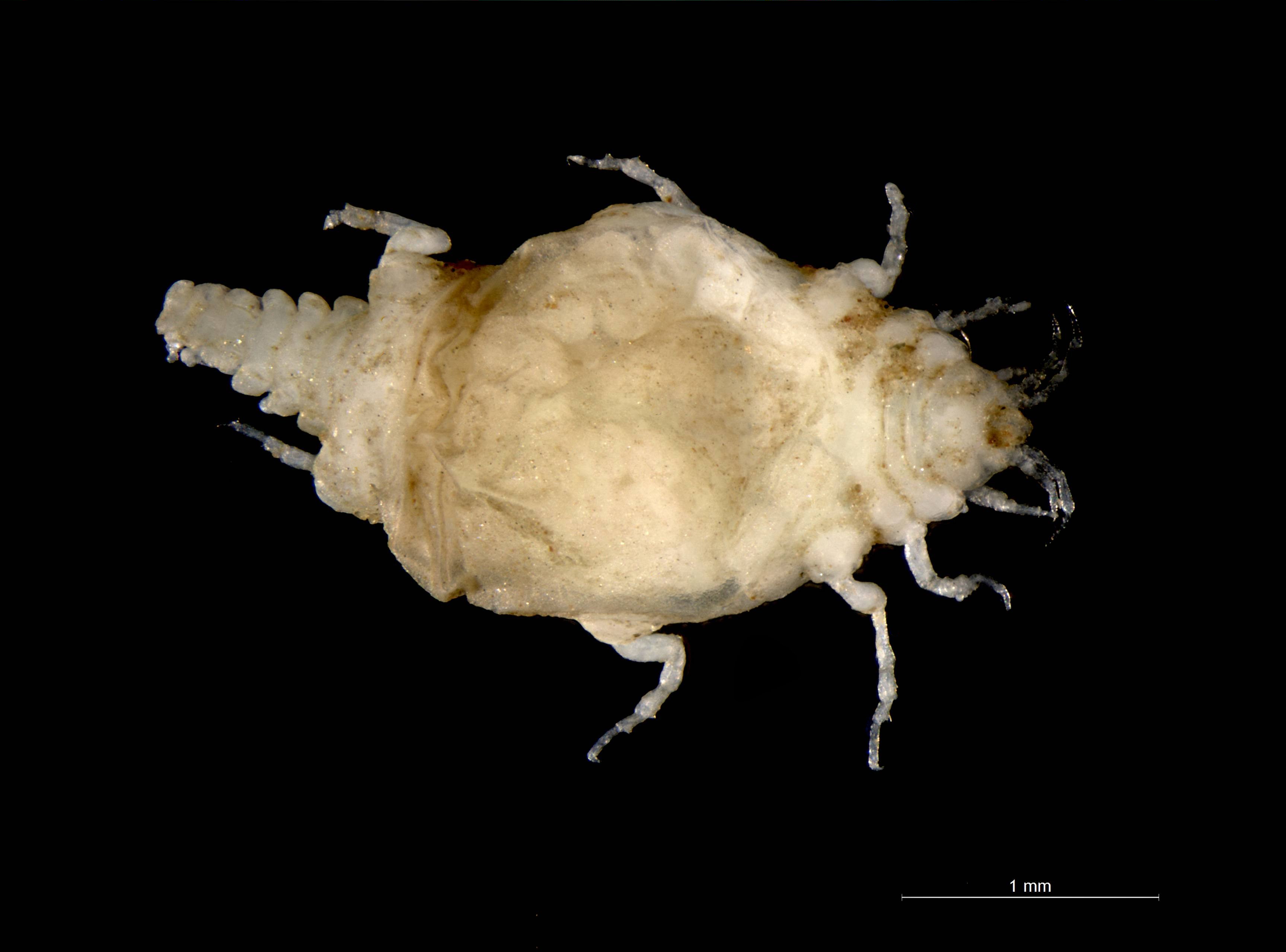 Dorsal view of a female gnathiid isopod, taken with a Leica DFC 490 camera mounted on a Leica M205C binocular microscope. Collected at Wimereux, France in 1987.Width = ~5 mmFocus stacking of 32 pictures.